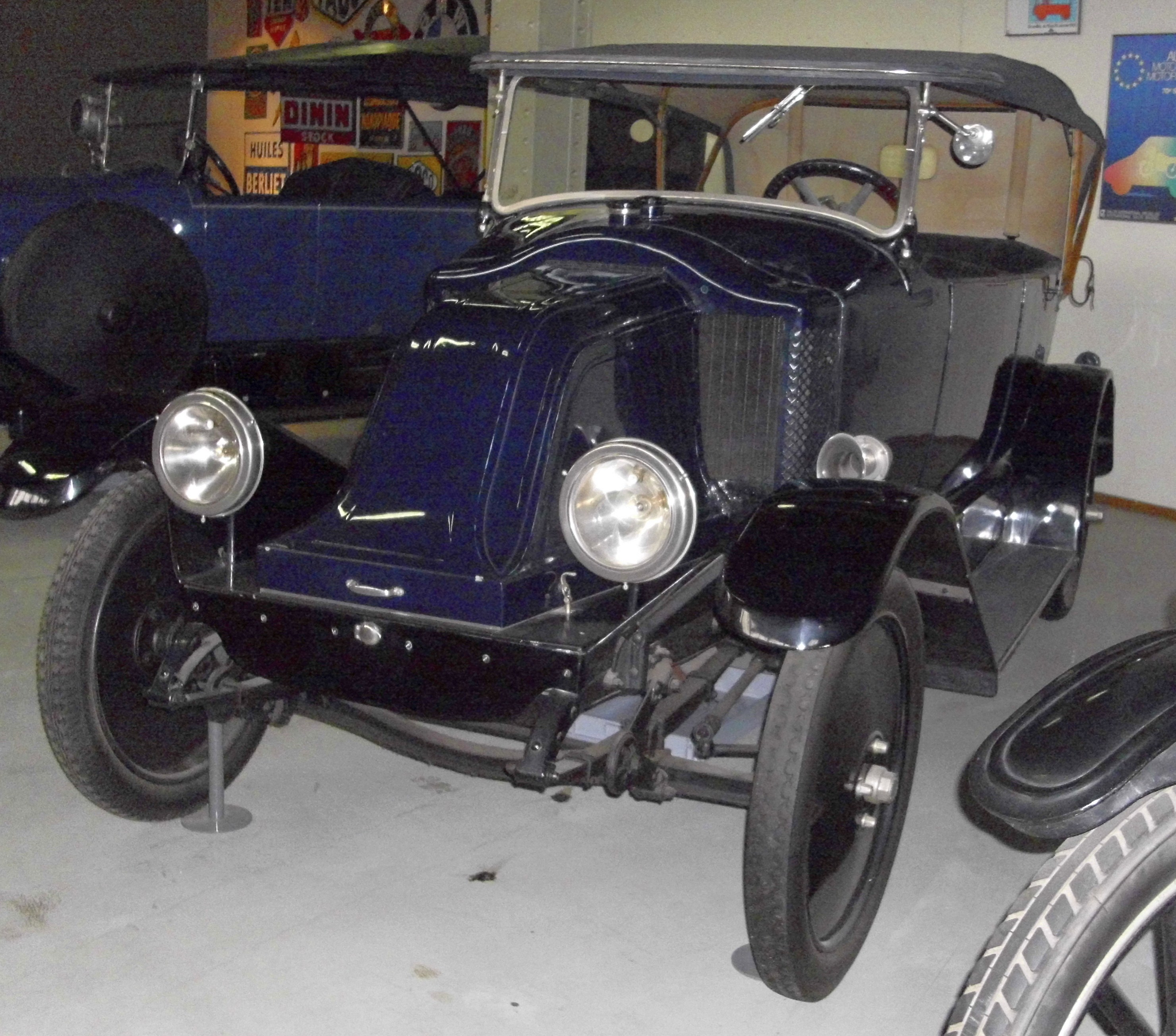 Renault Type IG Torpedo 1921